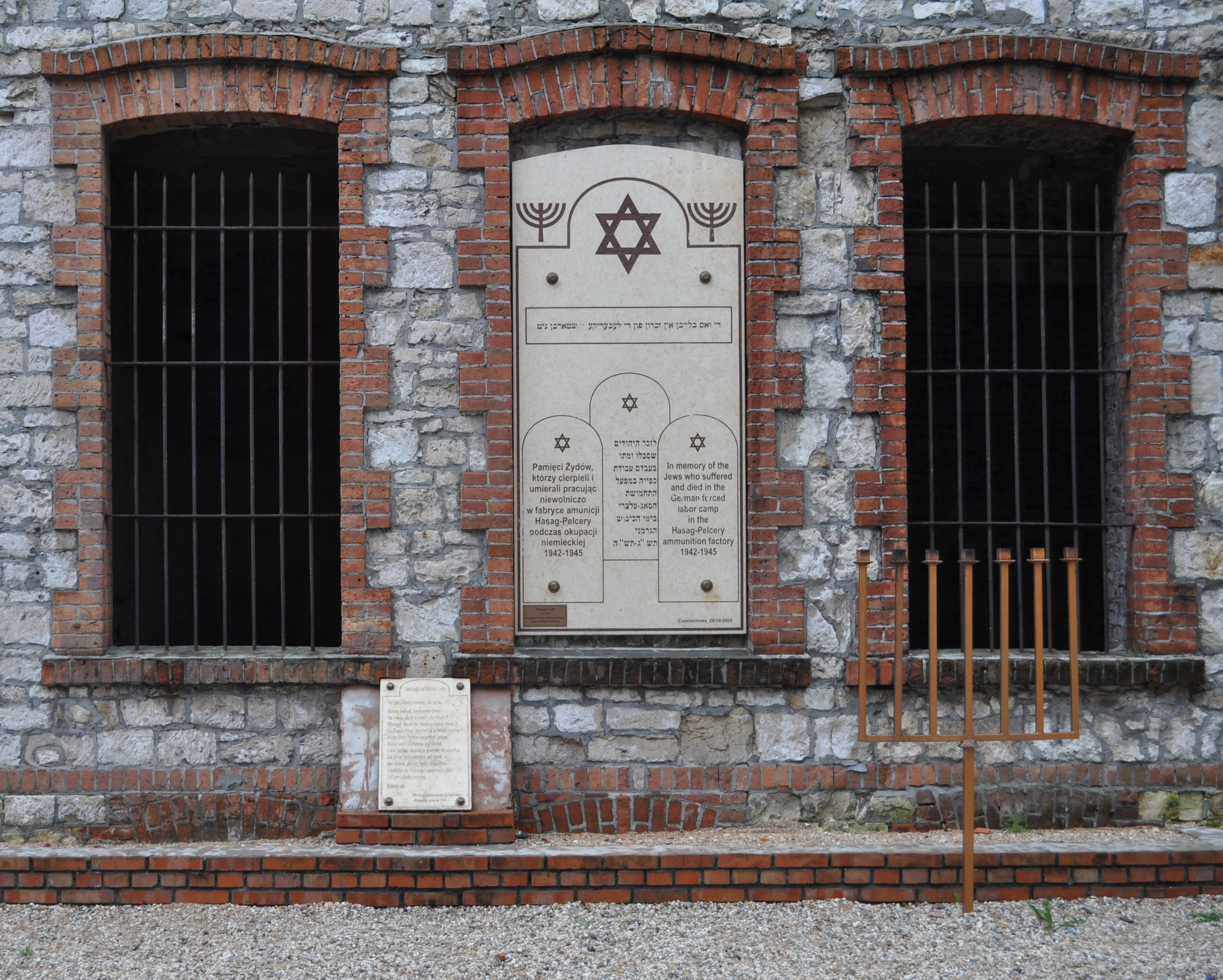 Hasag-Pelcery plaque